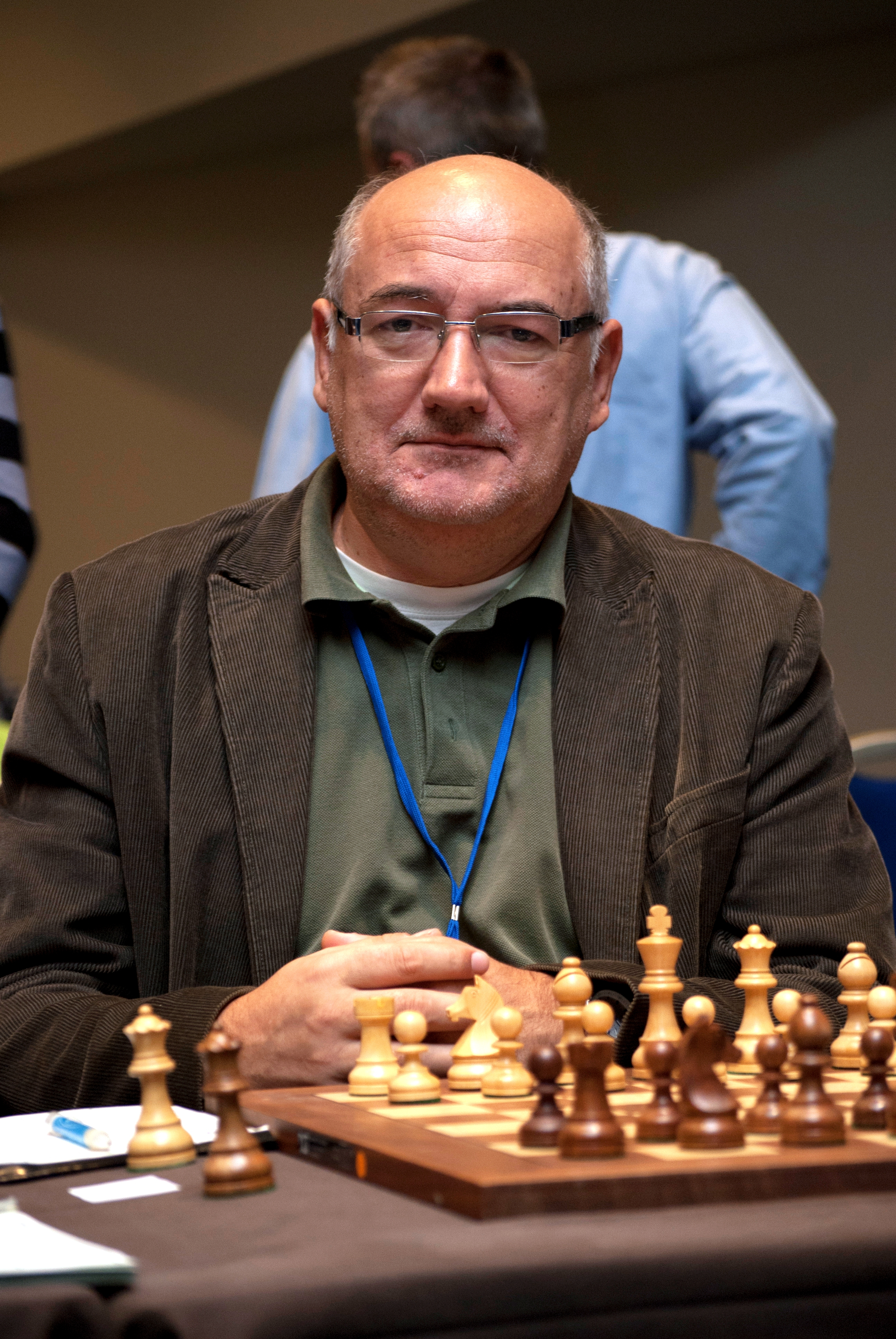 GM Branko Damljanović, Porto Carras EchT 2011.